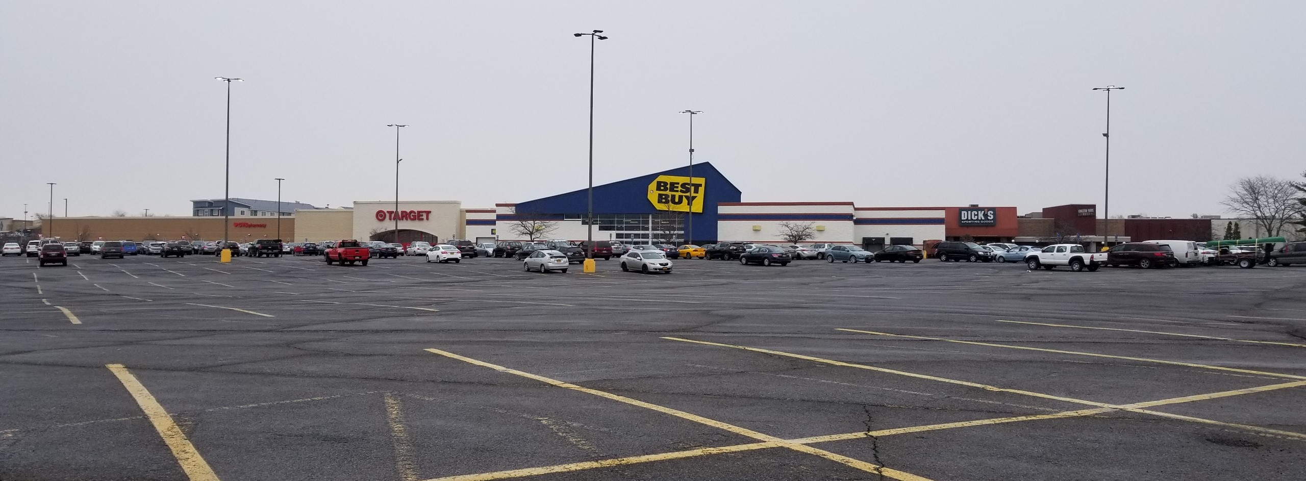 Best Buy - Hudson Valley Mall Kingston, NY March 2018